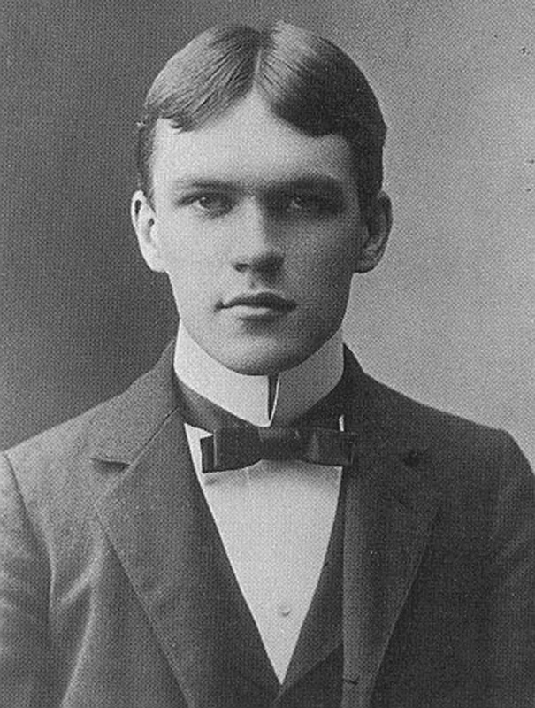 Photograph of James Branch Cabell at age 14.